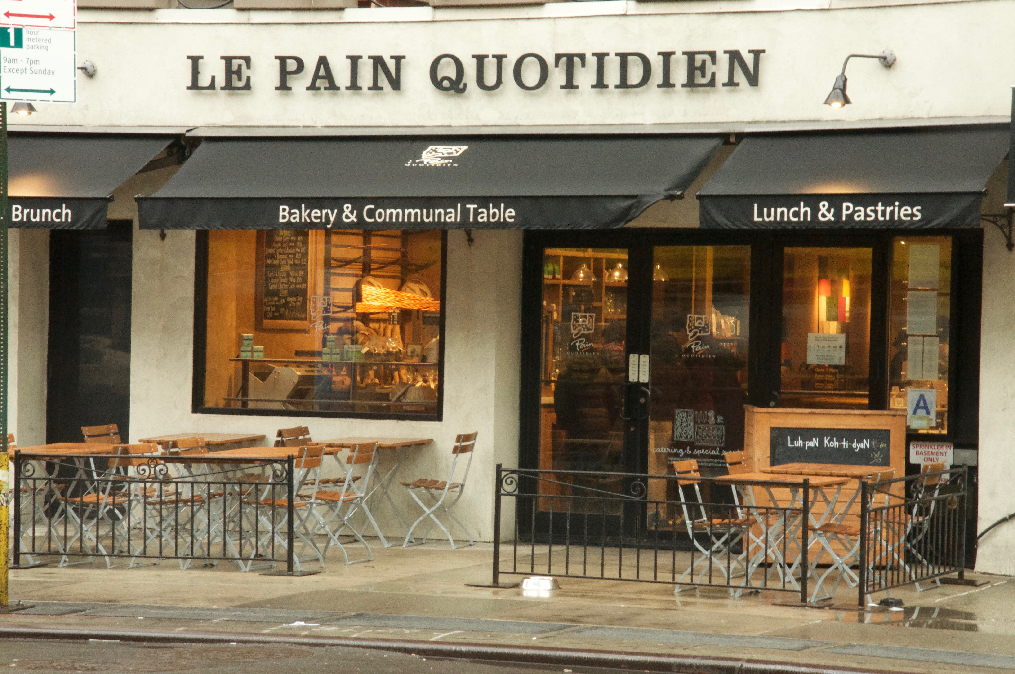 A Le Pain Quotidien in New York City.